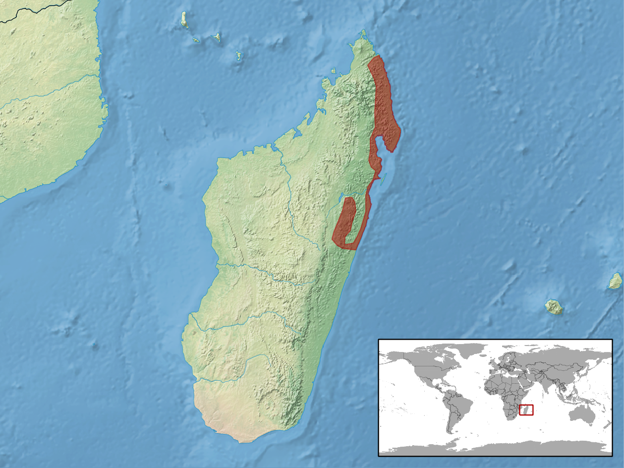 geographic distribution of Furcifer bifidus (Native: Madagascar)